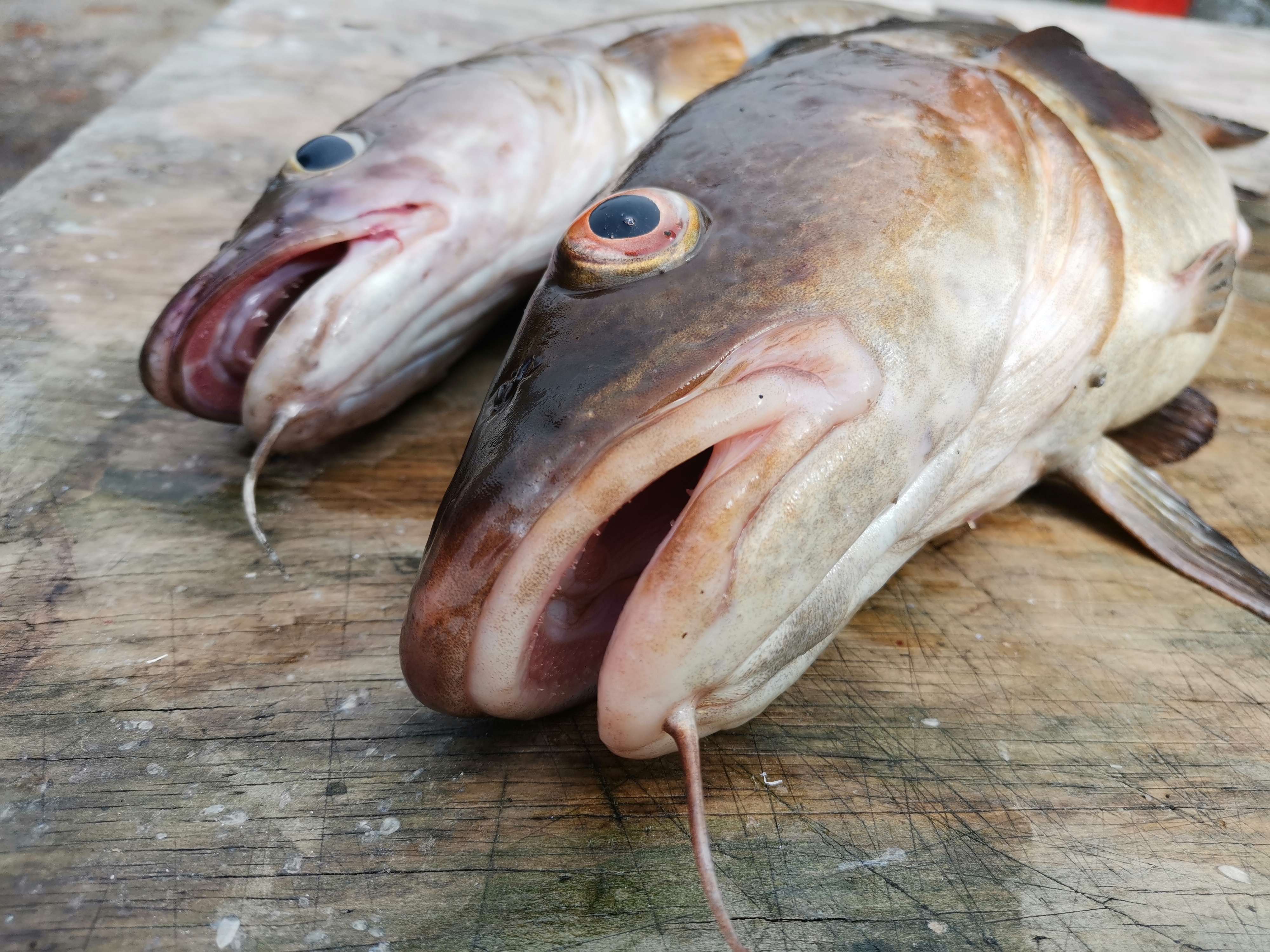 Common ling, Atlantic cod